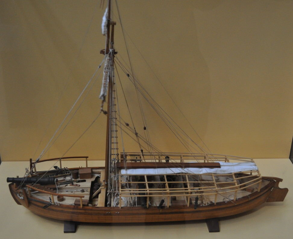 Model of the gunboat Philadelphia in the National Navy Museum